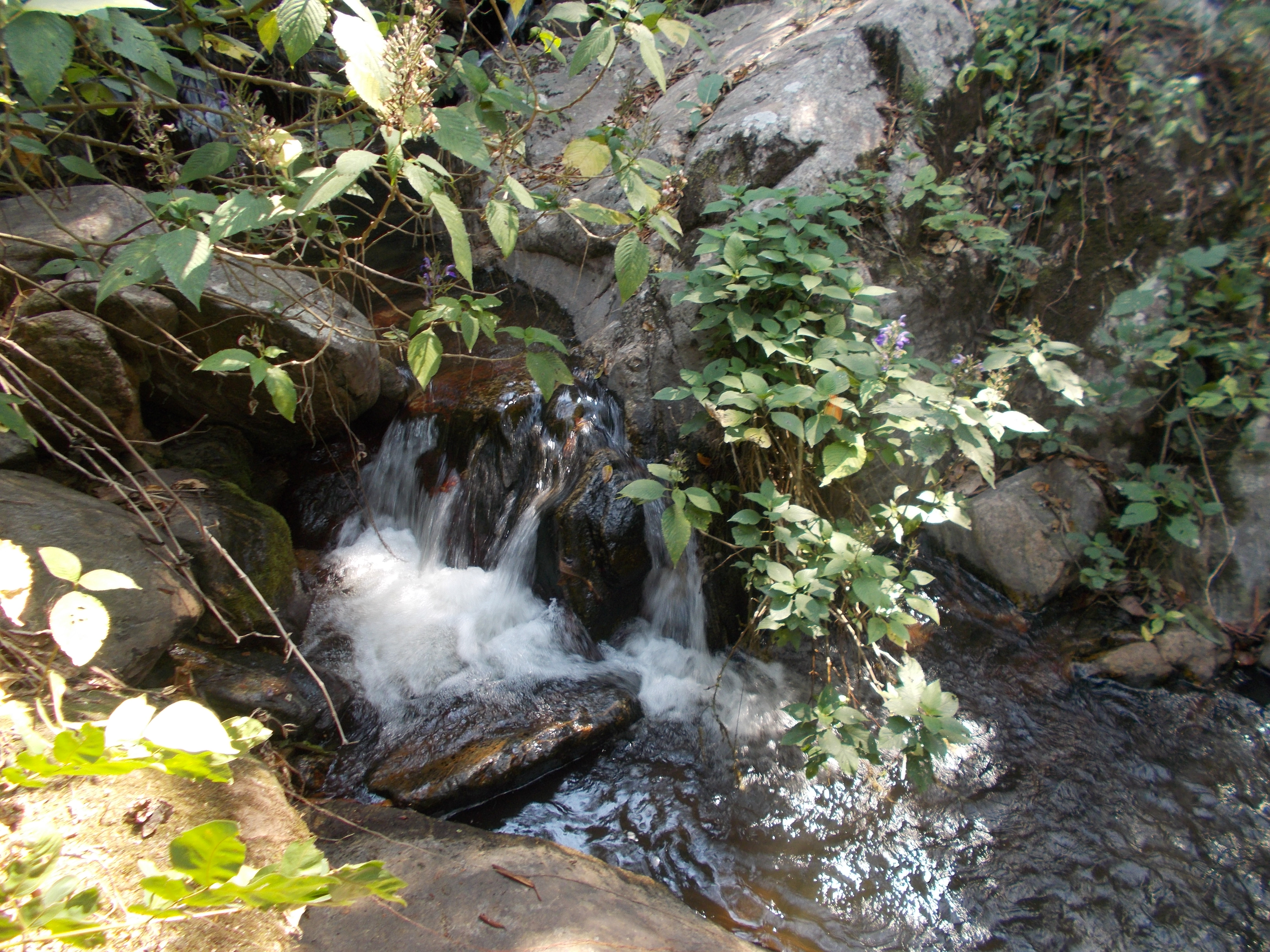 Mont Mambila – maybe at the Mambila Plateau in Nigeria, close to the Cameroon border? This is an image from Cameroon